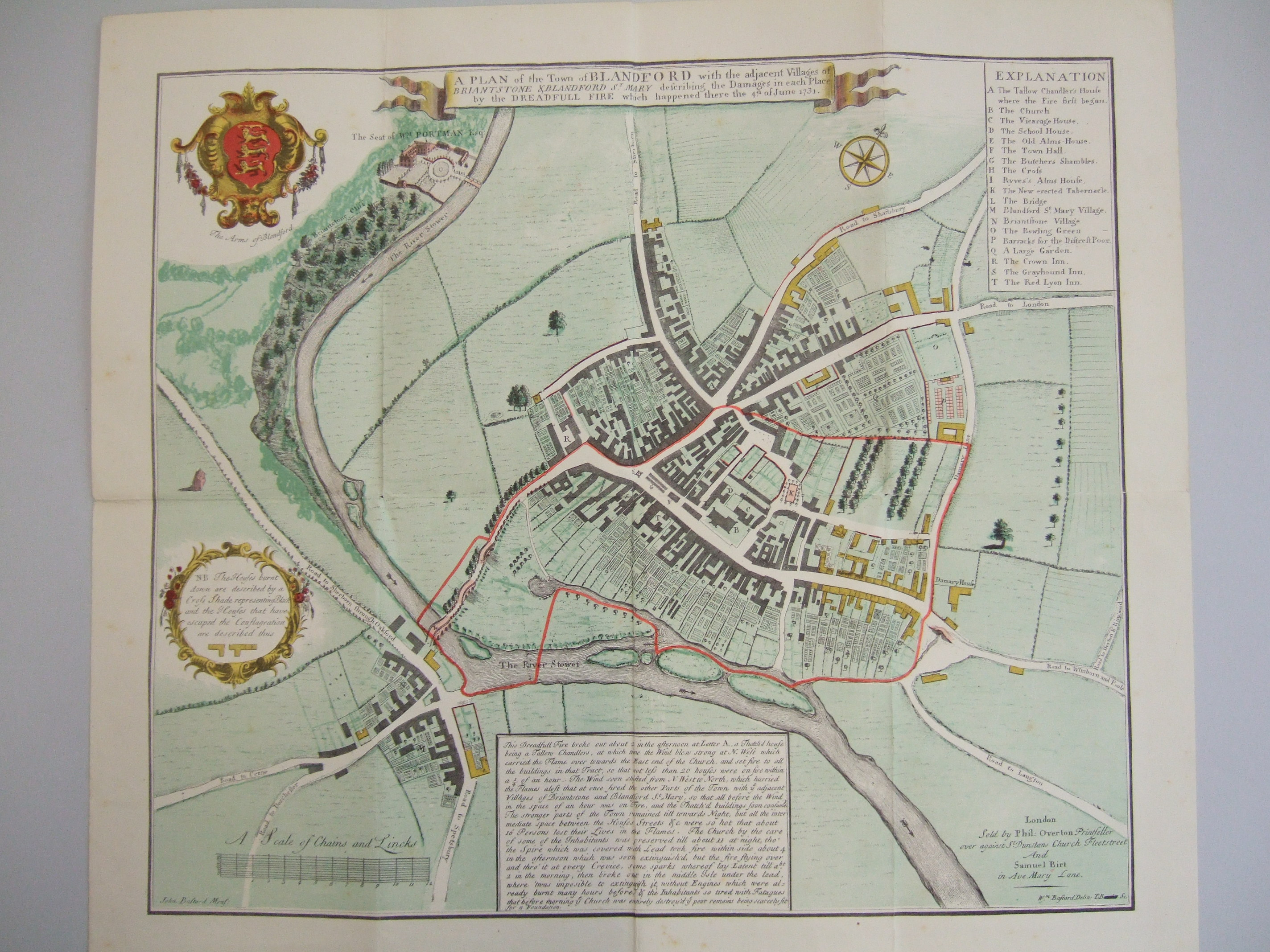 Plan of Blandford Forum showing parts of the town destroyed by the fire of 1731.